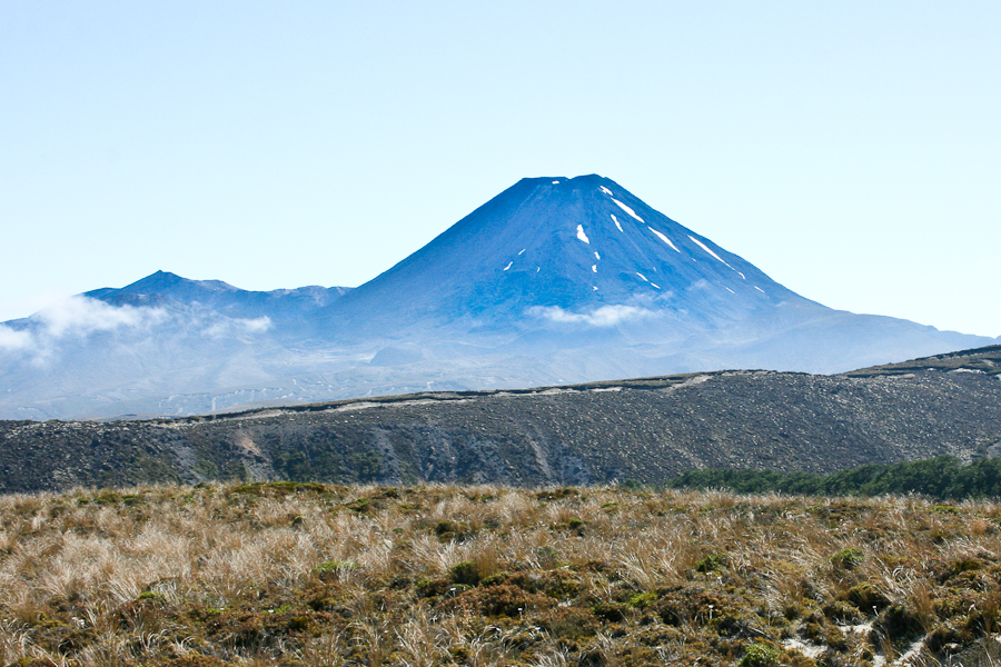 The mighty Ngauruhoe on a clear sunny day